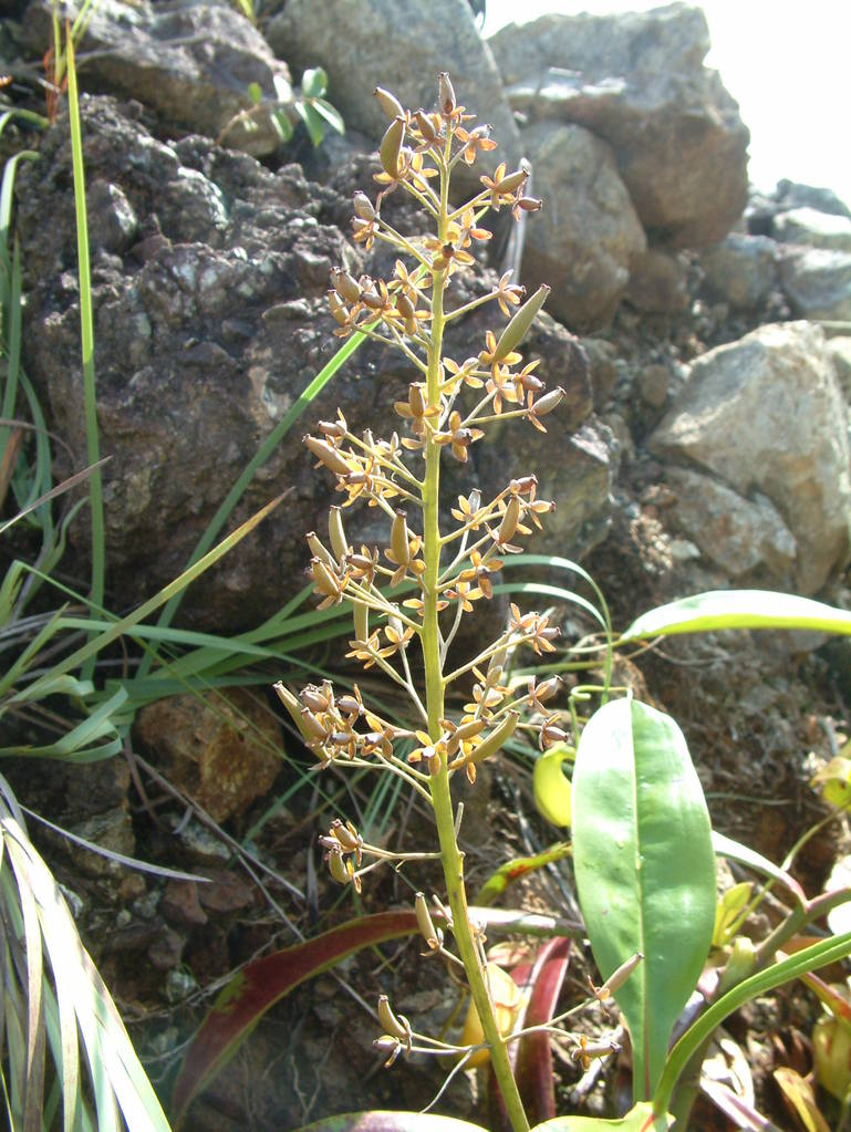 Female inflorescence of Nepenthes neoguineensis from New Guinea